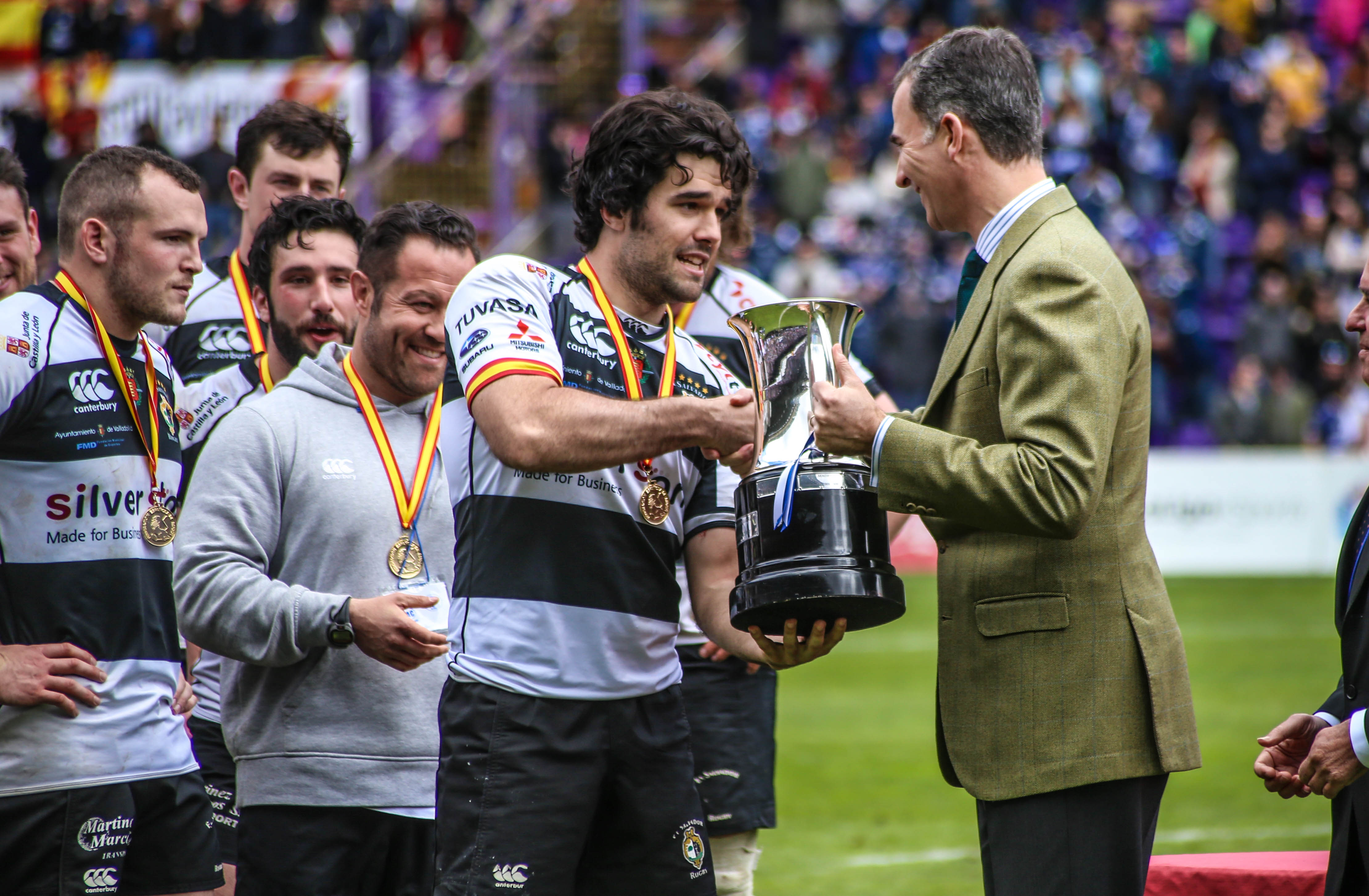 King Felipe VI of Spain is presenting the Copa del Rey (King's Cup) to the captain of El Salvador, winner of the rugby union Cup of Spain 2015-16